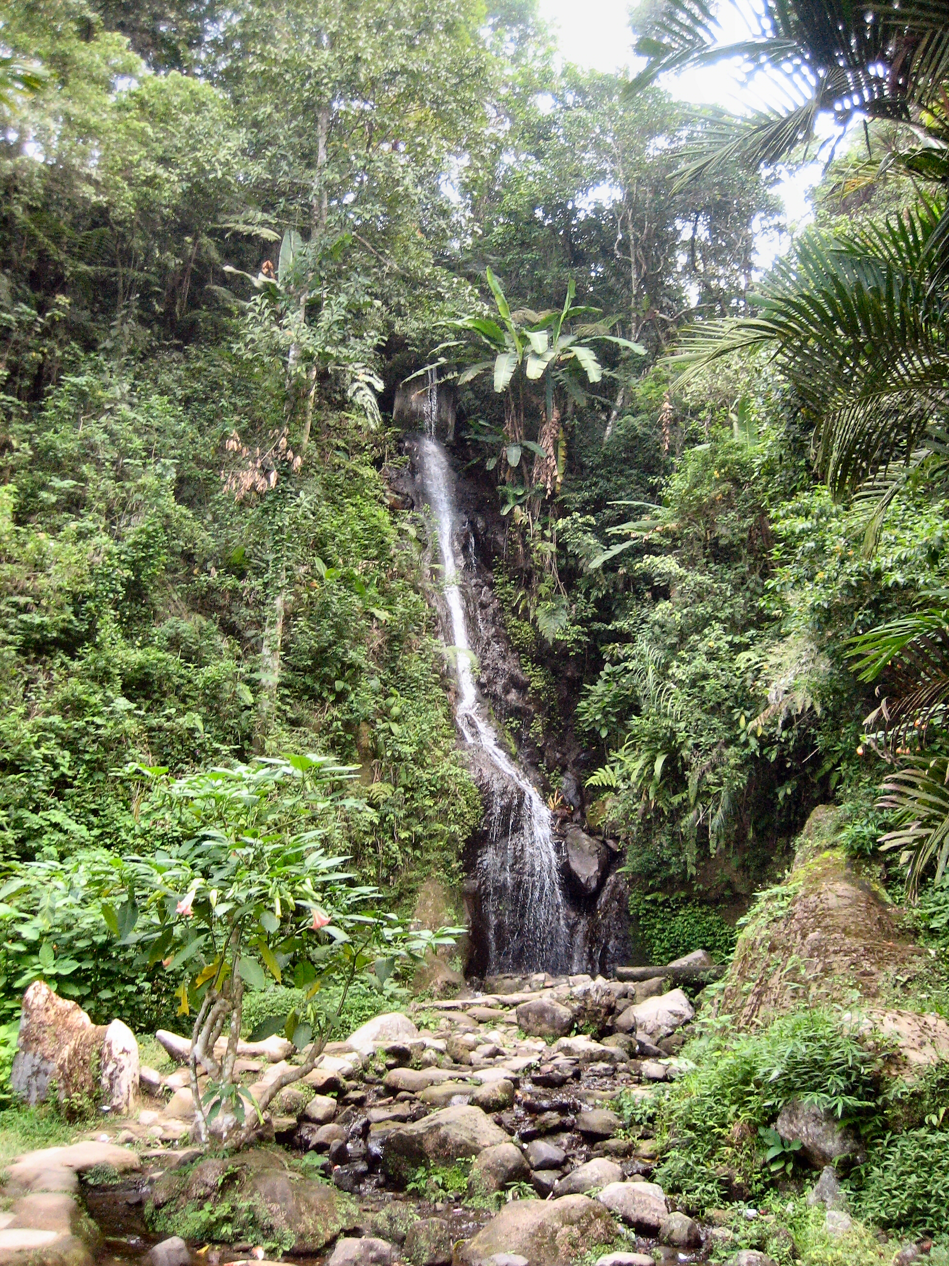 Cibodas Botanical Garden Java Indonesia Picture taken nov-2006 by Hullie